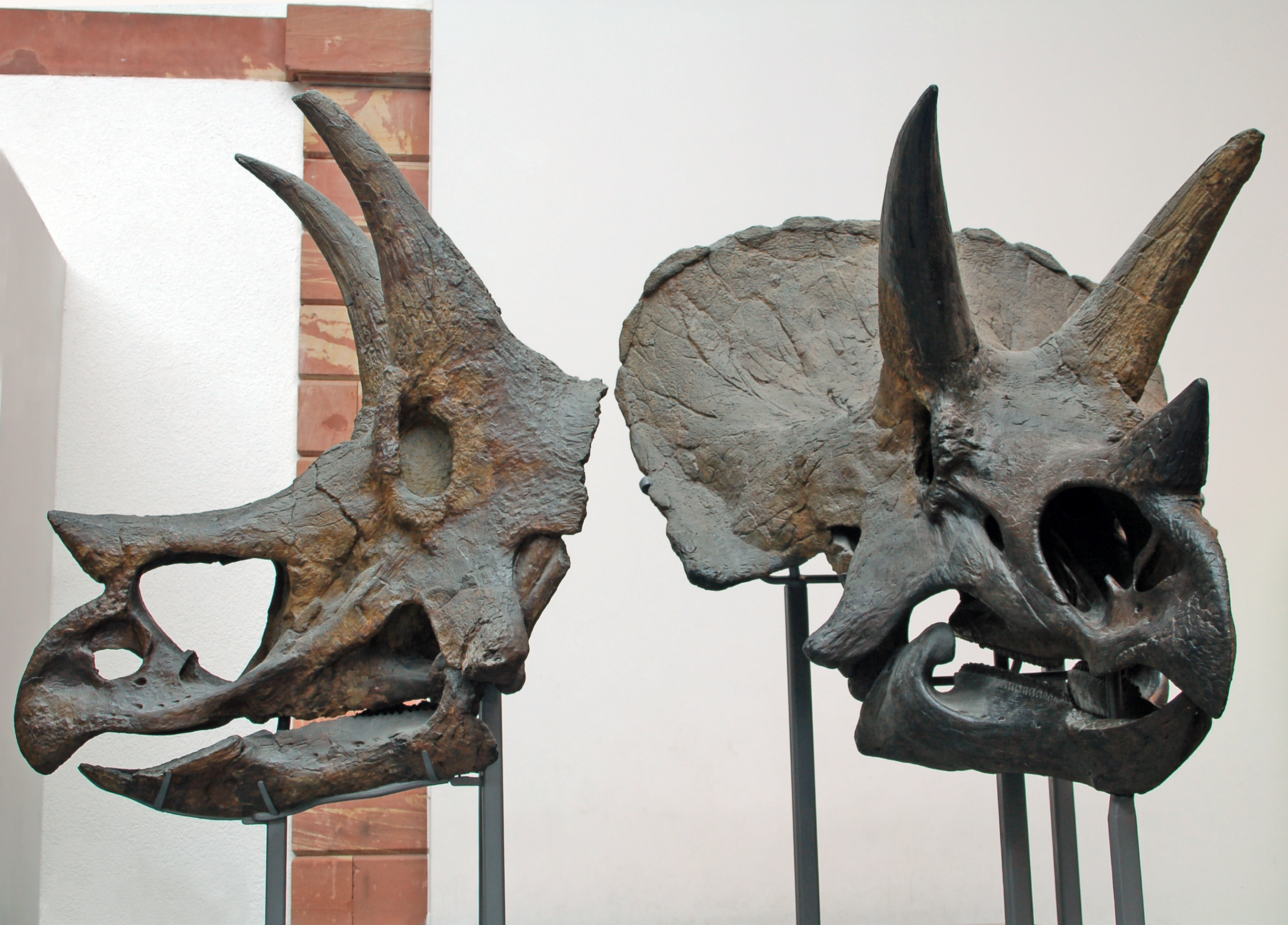 Original skulls of Triceratops horridus in the Senckenberg Museum in Frankfurt am Main